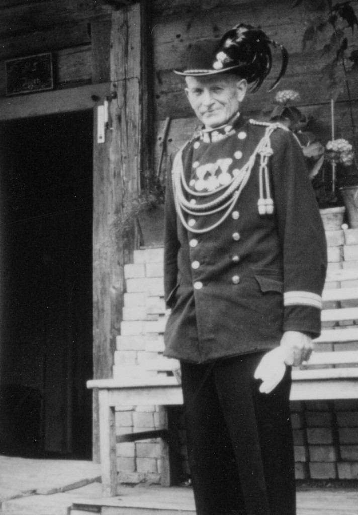 Member of a tradtion association near Millstatt (Millstätter See), district Spittal an der Drau in Carinthia / Austria / EU. On the hat there are tail feathers of a rooster.